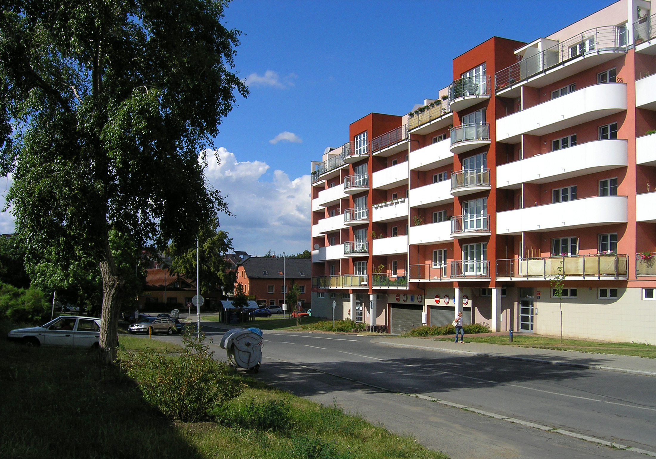 New hosiung by intersection of Počernická street with Limuzská street at housing estate Malešice, Prague